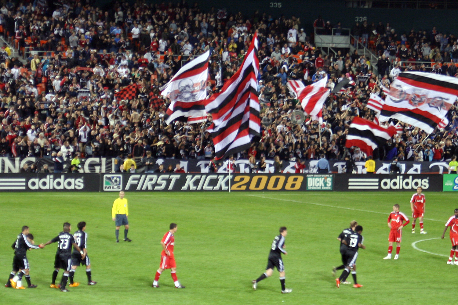 DC United's home opener, 5april08: Watching Barra Brava and the other support clubs was almost as much of a joy as watching United crucify Toronto...